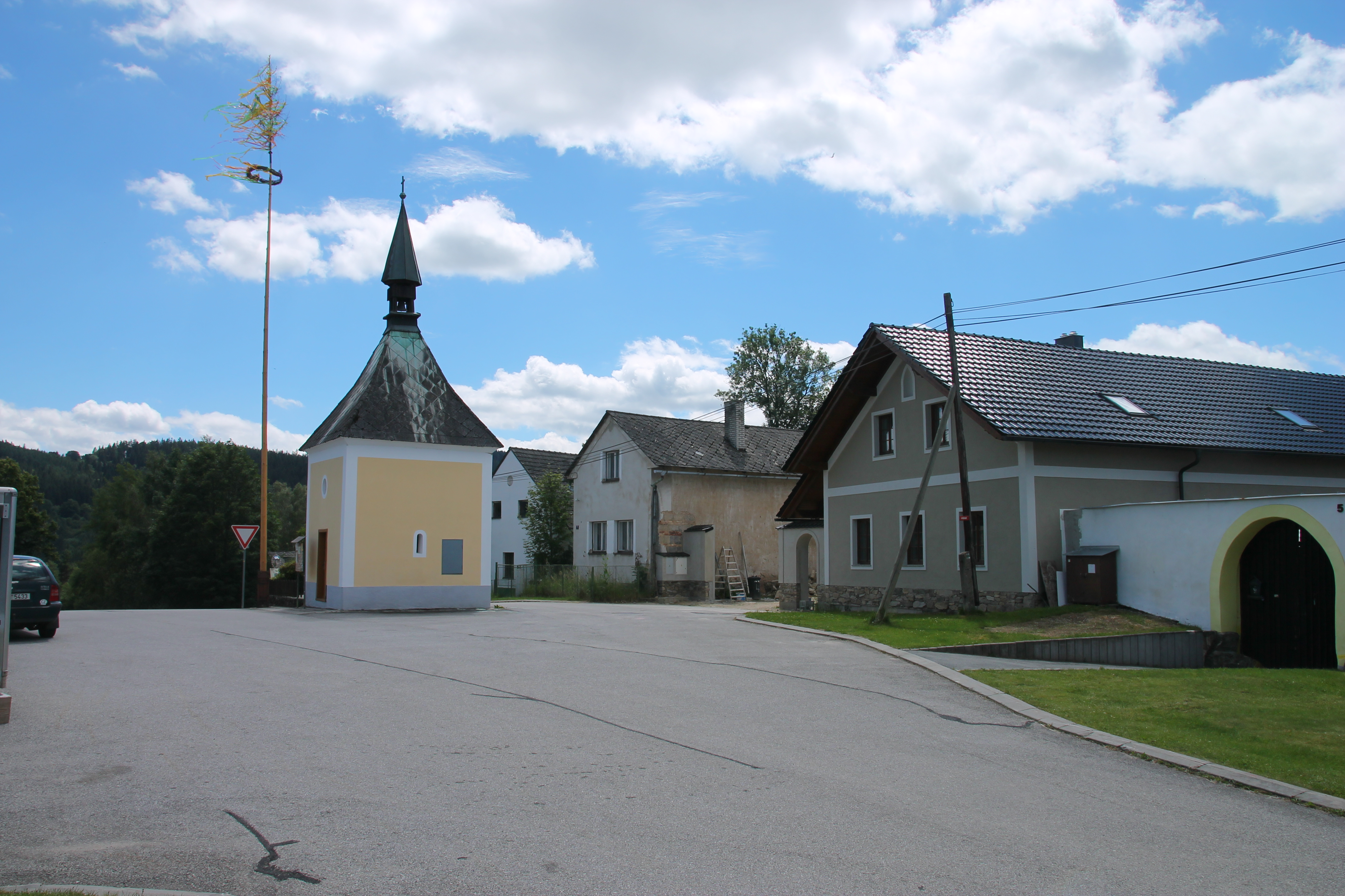 Trhonín, Svatá Maří